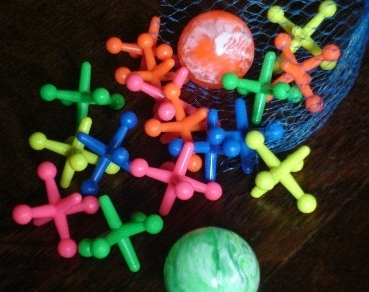 A set of jacks